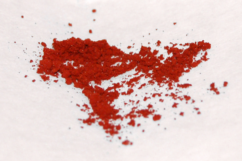 Photograph of a sample of Wilkinson's catalyst, [RhCl(PPh3)3]. Sample prepared in lab from RhCl3.xH2O and PPh3 in EtOH.